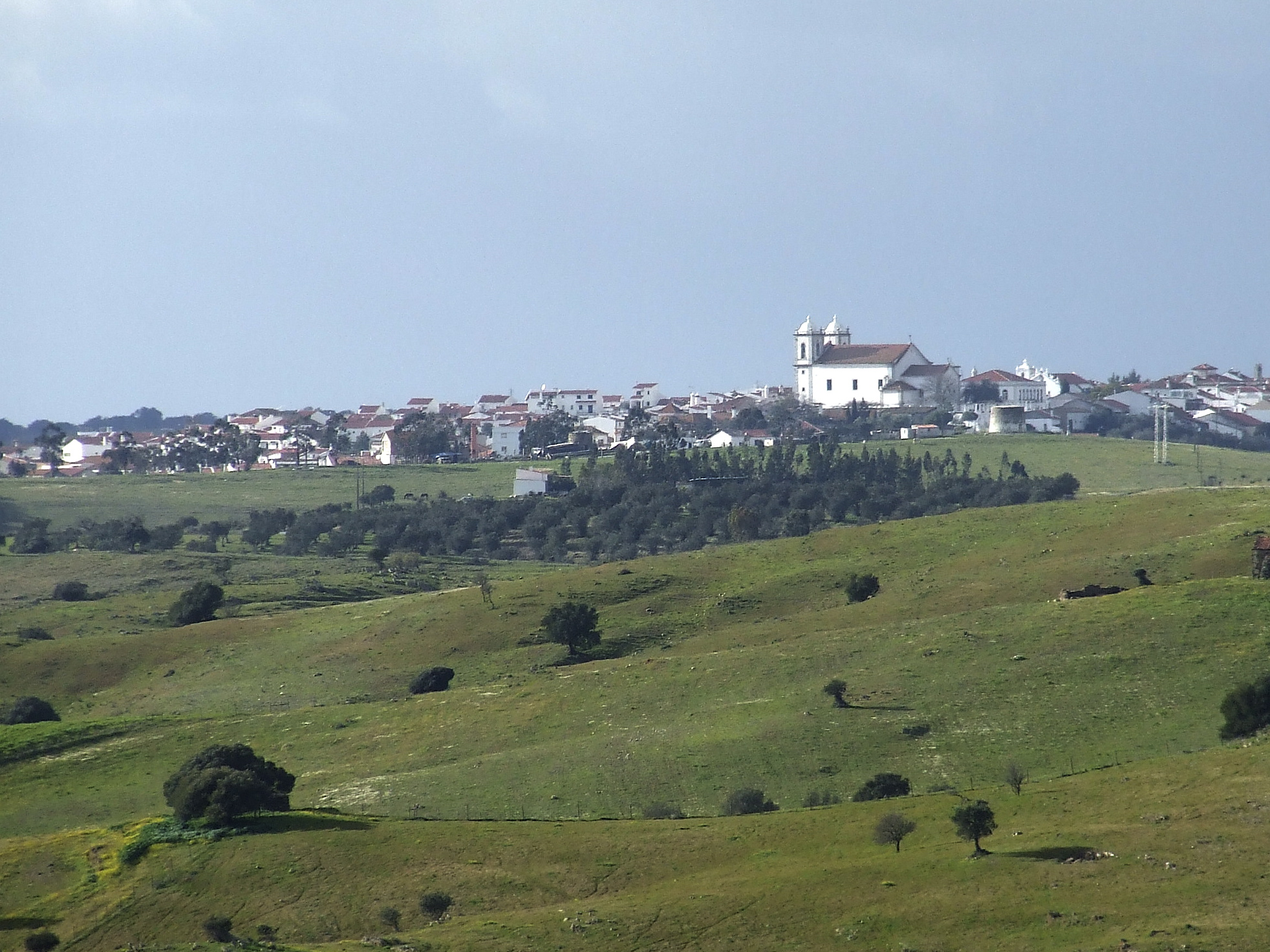 View of Castro Verde seen from the Memorial site to the Battle of Ourique-1139 (S. Pedro de Cabeças)-Birthplace of the Kindom of Portugal